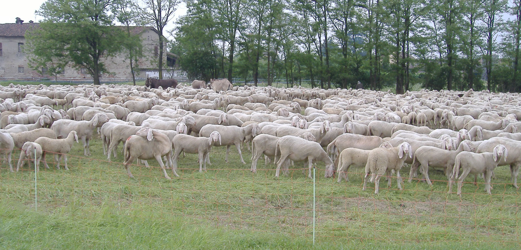 Sheep in Lodi, Italy